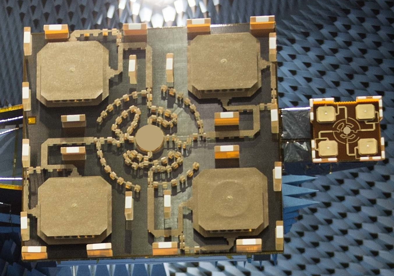 A UHF and L-band combination patch-array antenna being tested inside ESA’s Hertz chamber in September 2015. This prototype antenna is positioned on a mockup of part of a Meteosat Third Generation Imaging satellite, set for operation from 2020 onwards. The larger rectangular segment of antenna works at L-band frequencies to pick up meteorology data transmitted from Data Collection Platforms variously located on ships, ocean buoys, aircraft or balloons across the globe. The smaller antenna attached to the larger one has the vital task of picking up UHF distress signals from radio beacons belonging to the international Cospas–Sarsat system, so that they can be relayed to regional search and rescue systems.